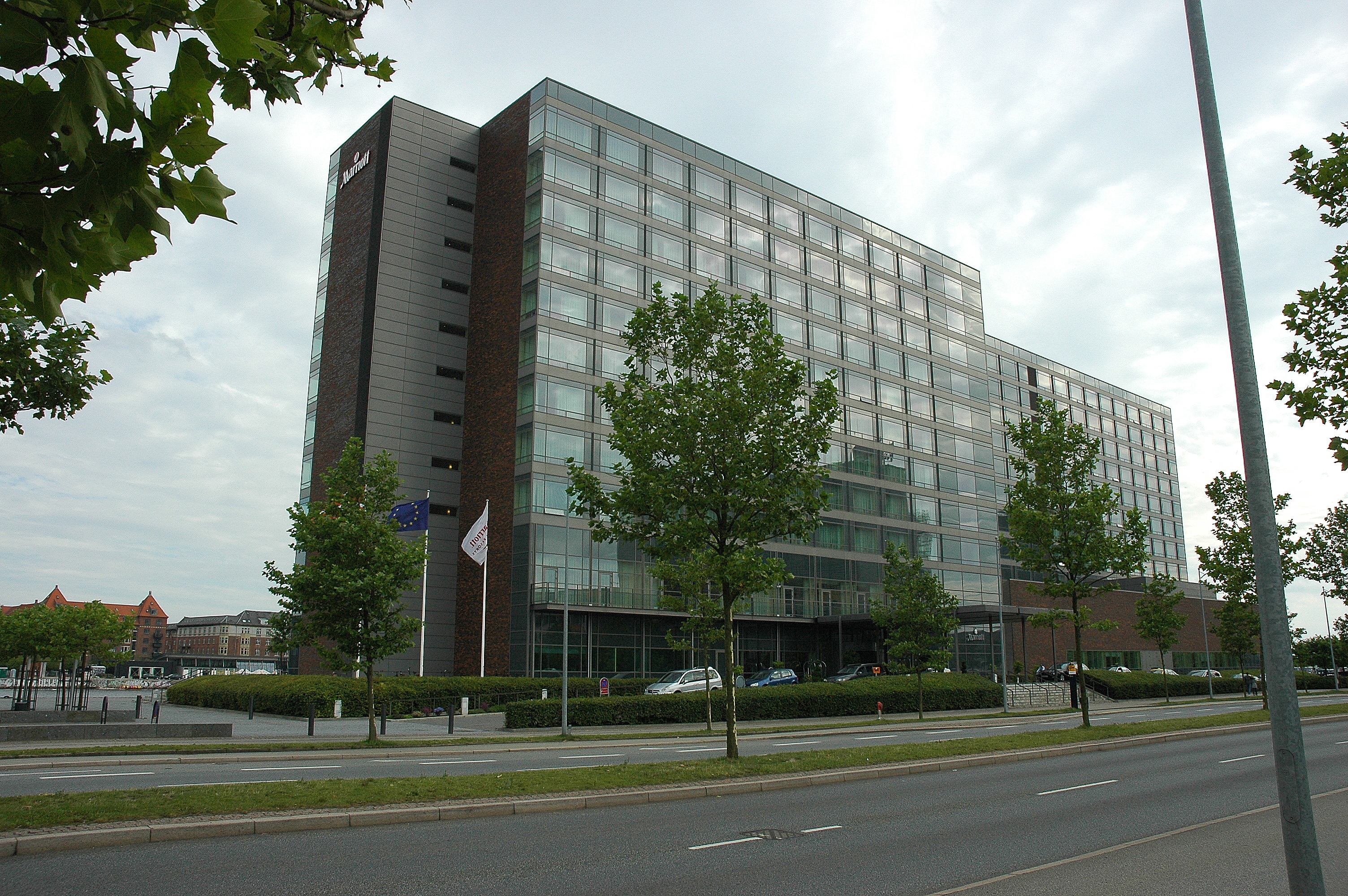 Copenhagen Marriott Hotel